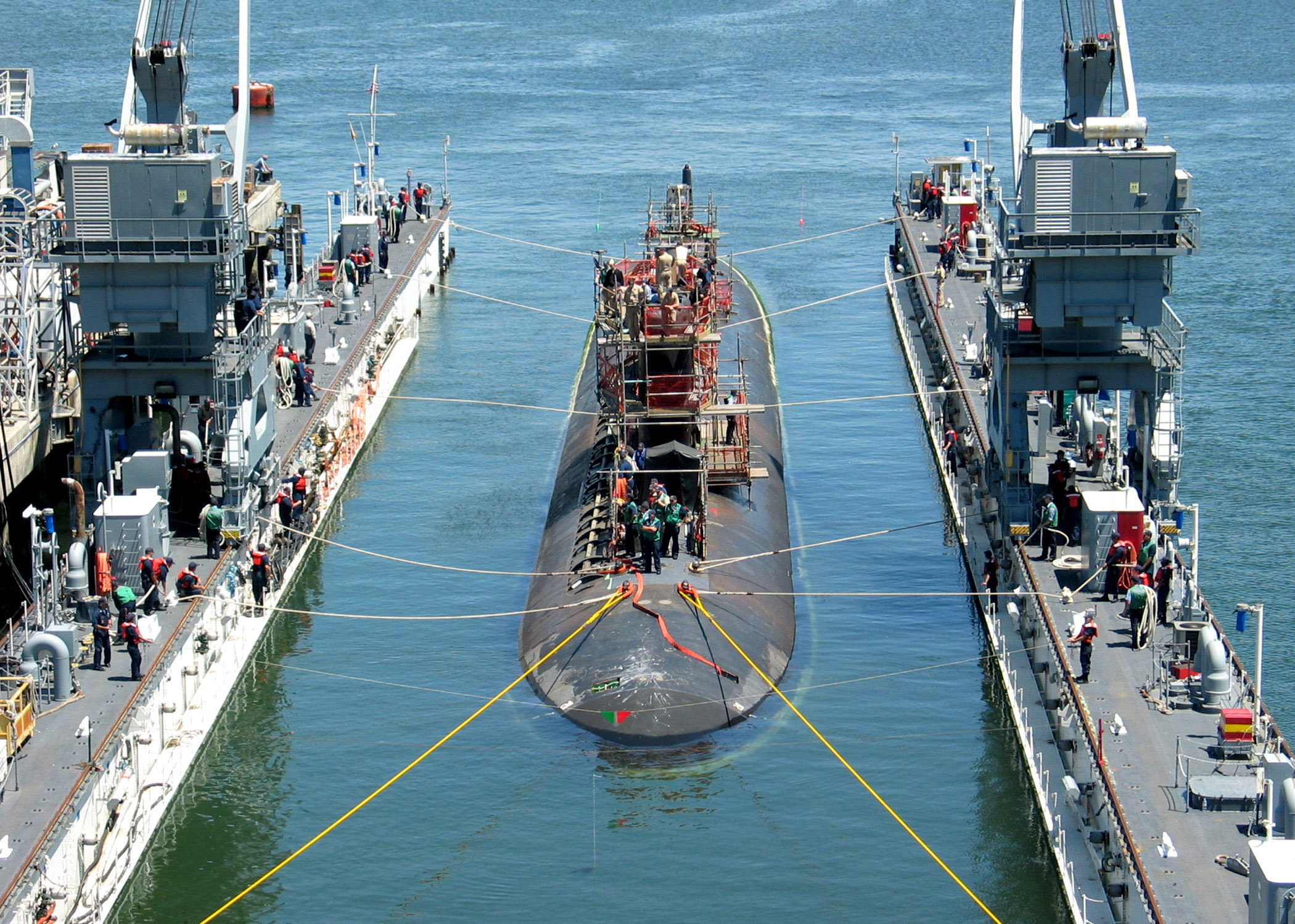 SAN DIEGO (April 25, 2007) - Los Angeles-class fast attack submarine USS Asheville (SSN 758), nicknamed “The Ghost of the Coast”, enters the floating dry dock Arco (ARDM 5) for a scheduled maintenance period aboard Naval Base Point Loma. ARCO is the only Sailor-operated and maintained dry dock facility in the Navy. U.S. Navy photo by Chief Mass Communication Specialist Yan M. Kennon (RELEASED)